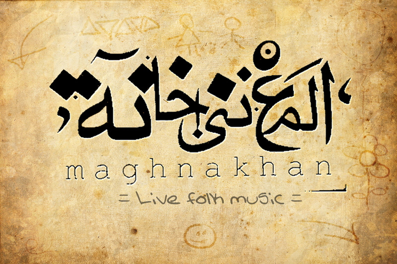 Maghna Khan Band Logo graphics